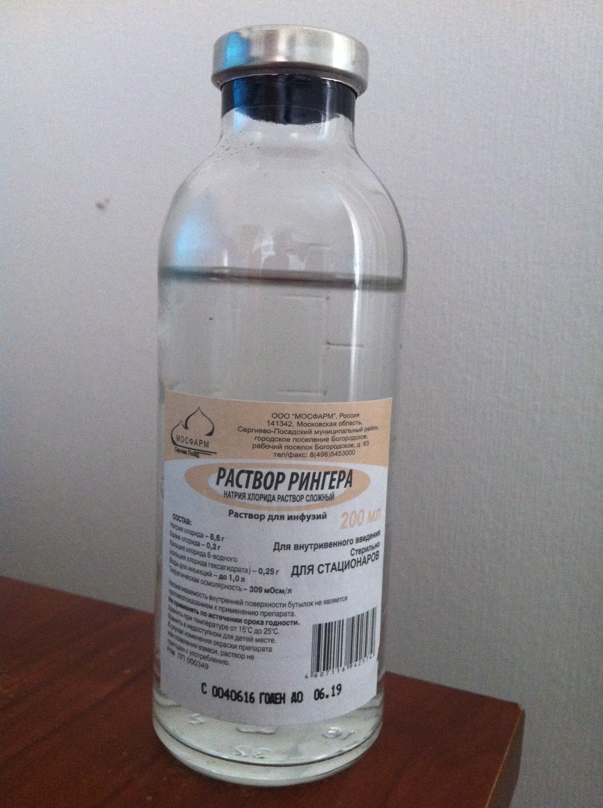 Раствор рингера